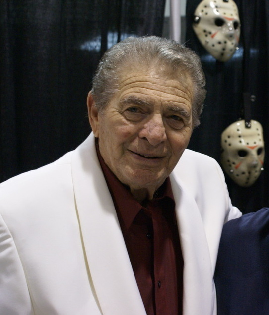 Ted White at "Full Moon Tattoo & Horror Festival" in Nashville, TN April 2012